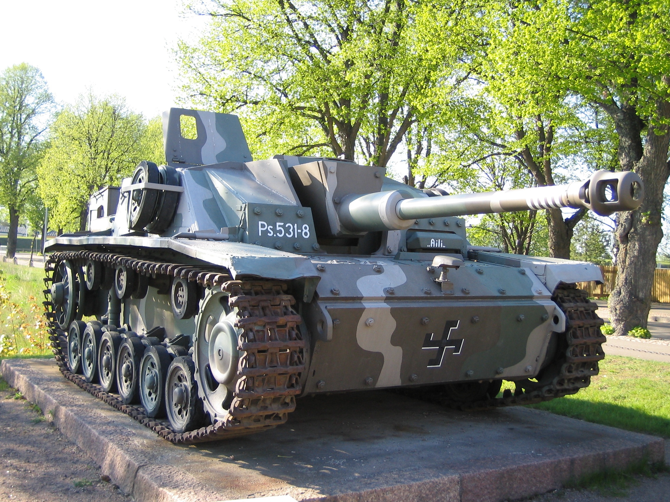 Sturmgeschütz III Ausf G assault gun in Hamina